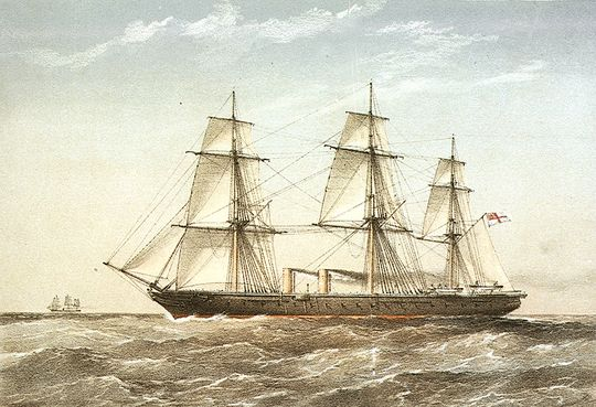 A tinted lithograph, 182x226mm of H.M.S. Warrior.